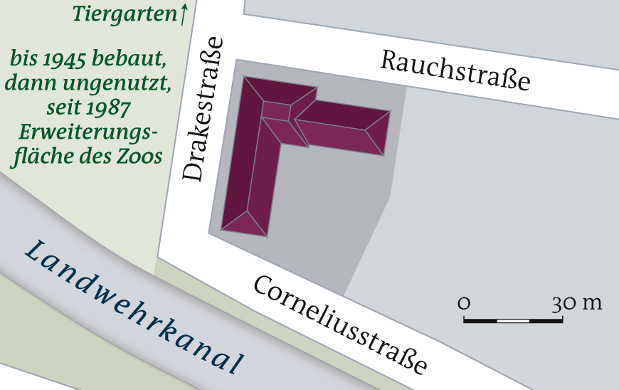 Ground plot of the former Royal Yugoslavian Embassy (outline shown in red) with the streets and other features immediately surrounding it. The building was built in 1938-40 by German architect Werner March, and houses the German Society for Foreign Policy (DPAG e.V.) today.